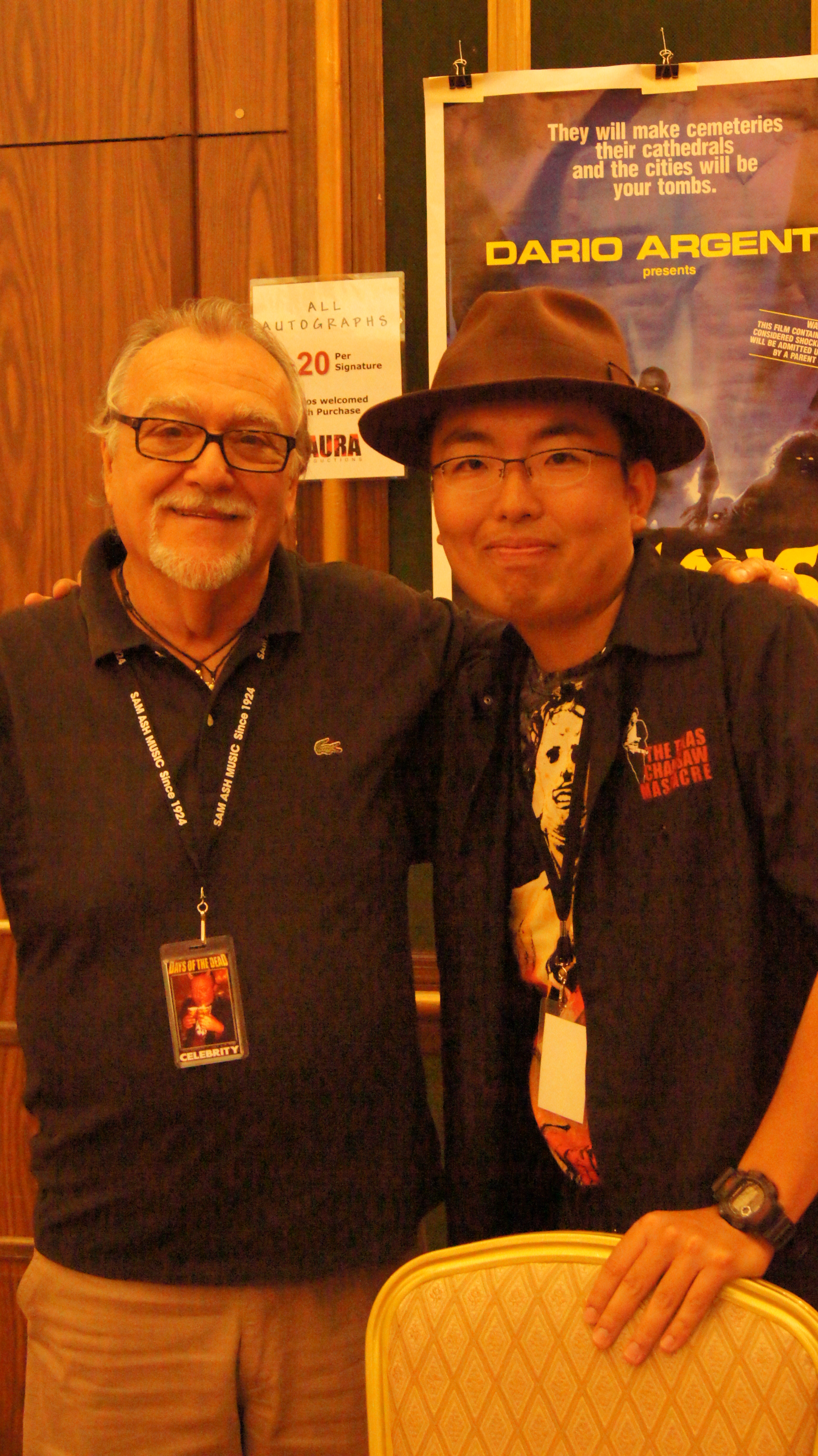 Italian horror film director Lamberto Bava (left) and Japanese filmmaker Ryota Nakanishi (right) at the 2012 Days of the Dead, Indianapolis, USA.